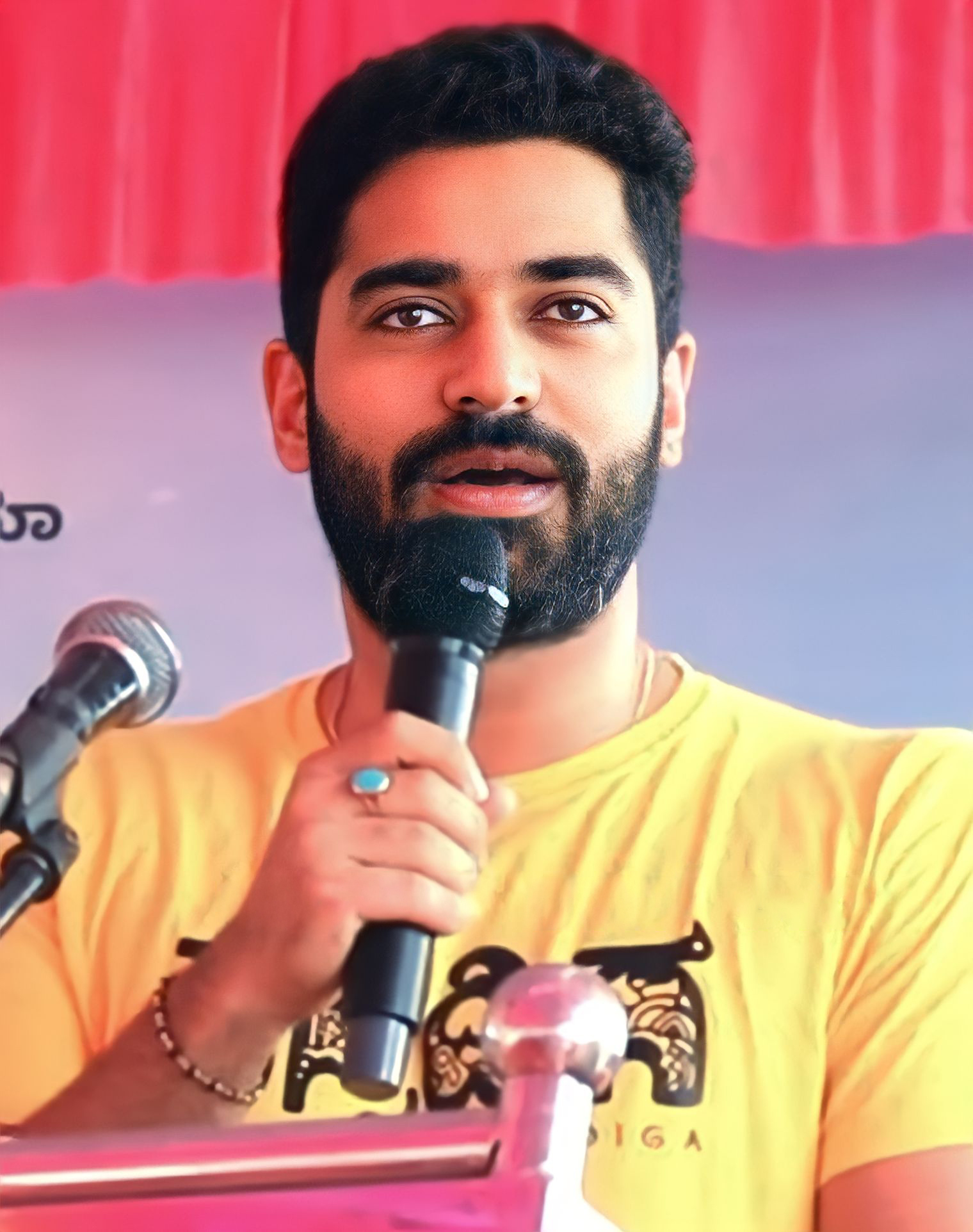 Shine Shetty at Biggboss Finale